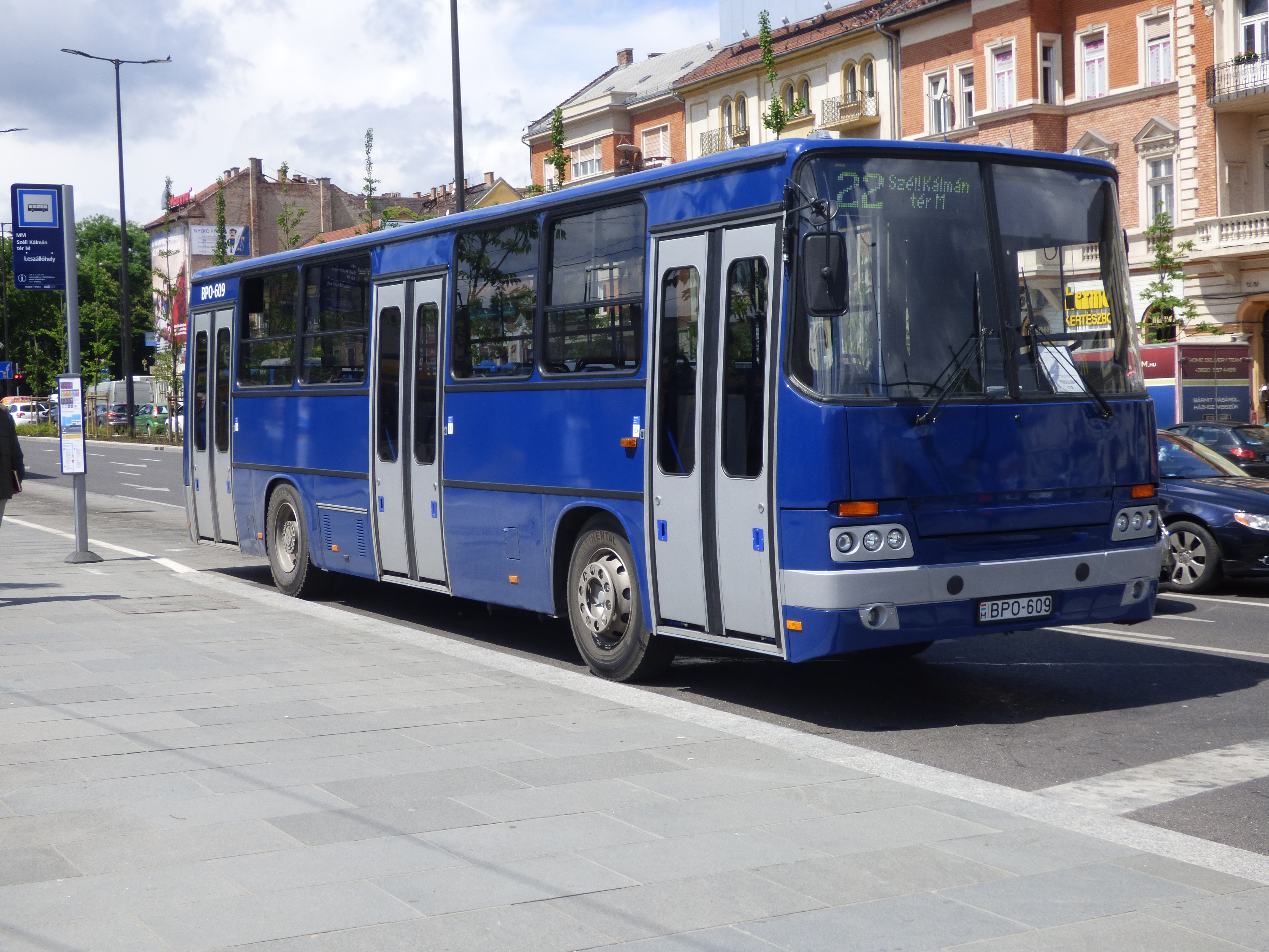 Ikarus 260 replacement bus (reg. BPO-609) on line number 22 (Budapest).